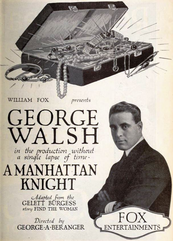 Advertisement for the American mystery film A Manhattan Knight (1920) with George Walsh, on page 13 of the March 6, 1920 Exhibitors Herald.